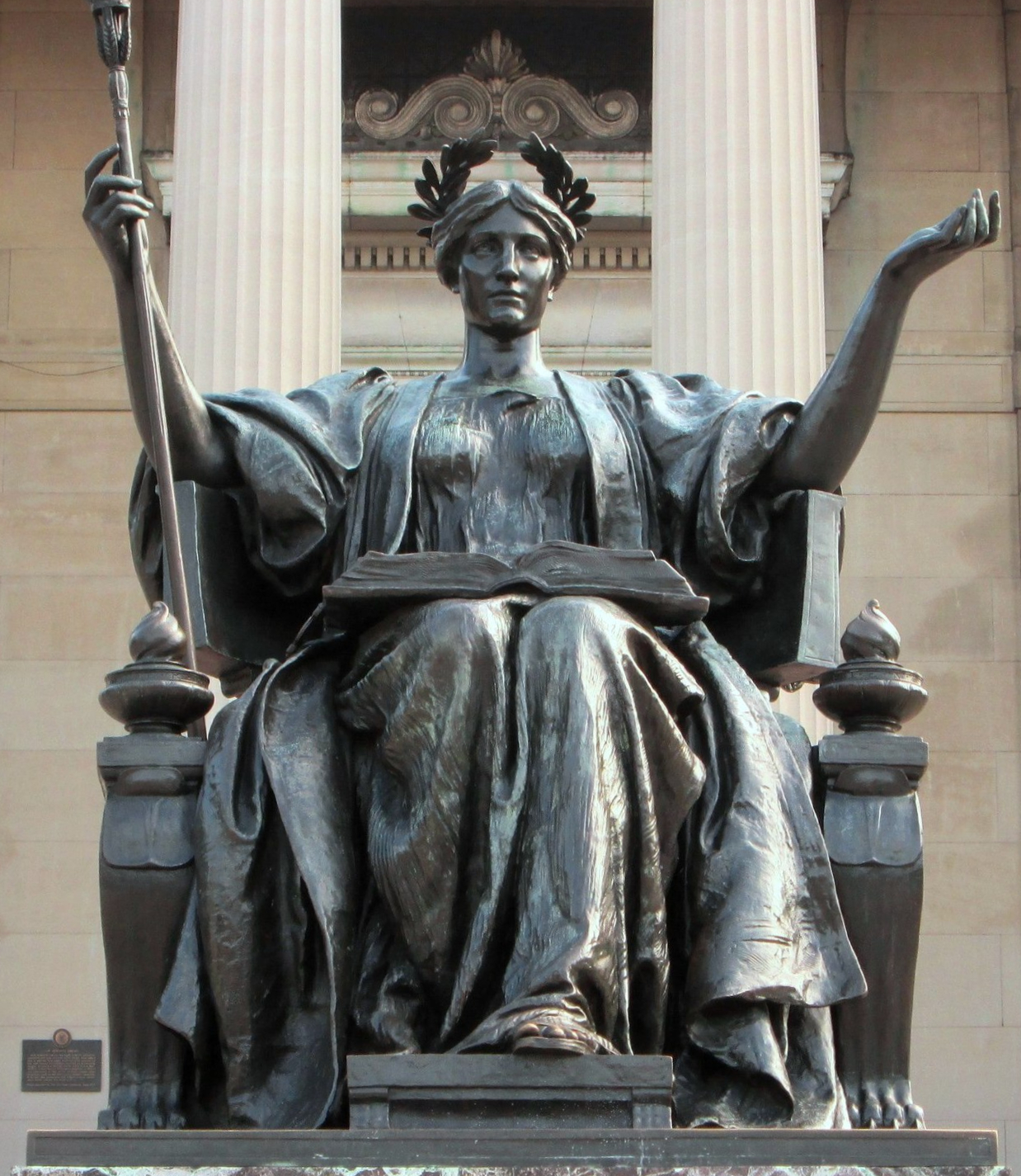 Alma Mater by Daniel Chester French stands in front of the Low Memorial Library on the Morningisde Heights campus of Columbia University in Manhattan, New York City. The 1903 brinze statue was gilded in 1962, but protests caused the gilding to be removed. (Source: AIA Guide to NYC (5th ed.))